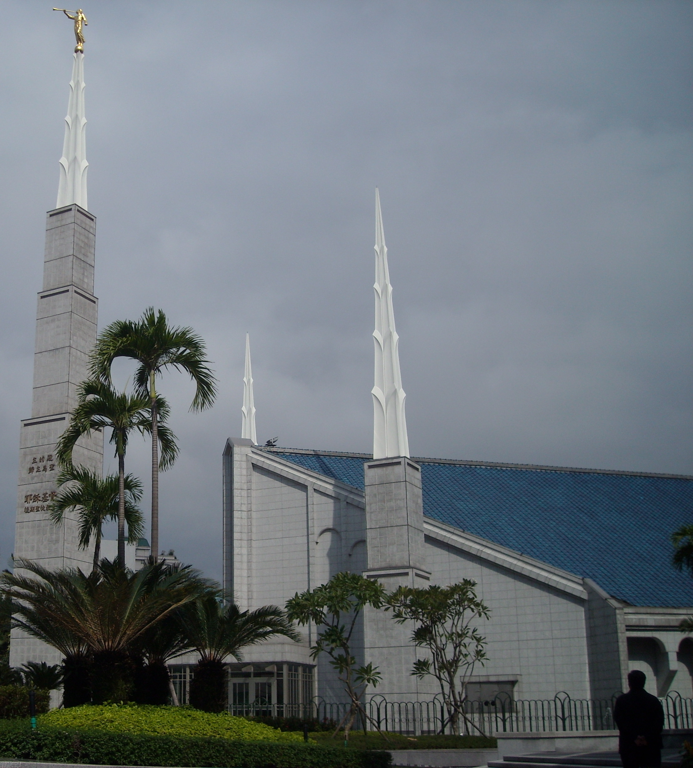 Picture of the Taipei Taiwan Temple of The Church of Jesus Christ of Latter-day Saints